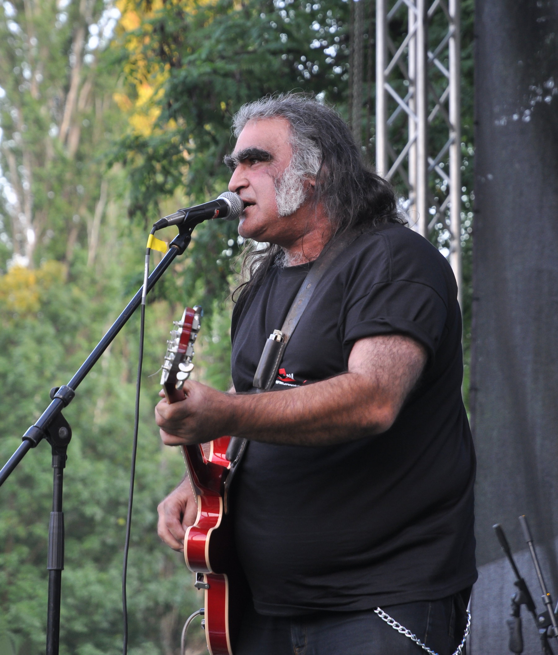 The Bulgarian blues-rock musician Mario Sabev mostly known as Bugi Barabata at "Flower for Gosho Fest" 2011, South park, Sofia.